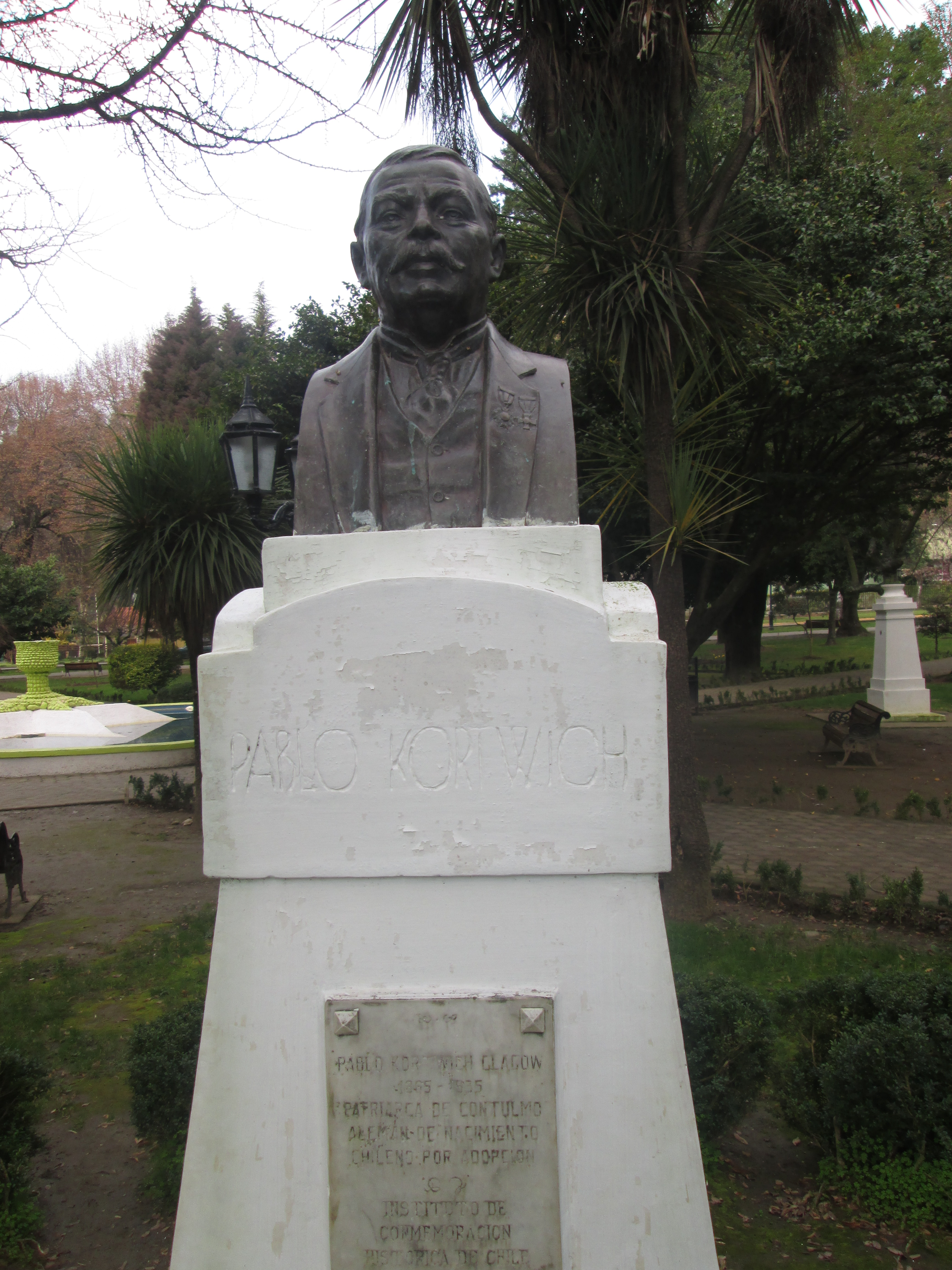 Bust of Paul Kortwich (Inaugurated in 1950 at Plaza de Armas of Contulmo, Chile)